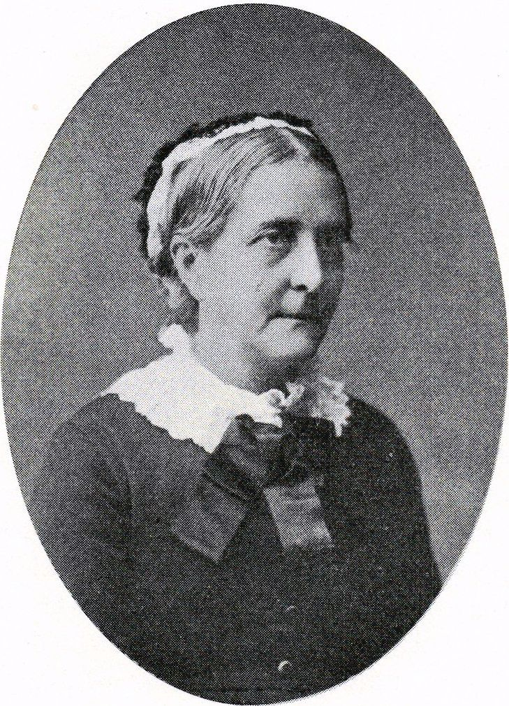 Emilia Fröding, née Agardh, daughter of the Swedish bishop Carl Adolph Agardh and mother of the Swedish poet Gustaf Fröding. Emilia Fröding was born March 1, 1827 and died Sept 2, 1887.